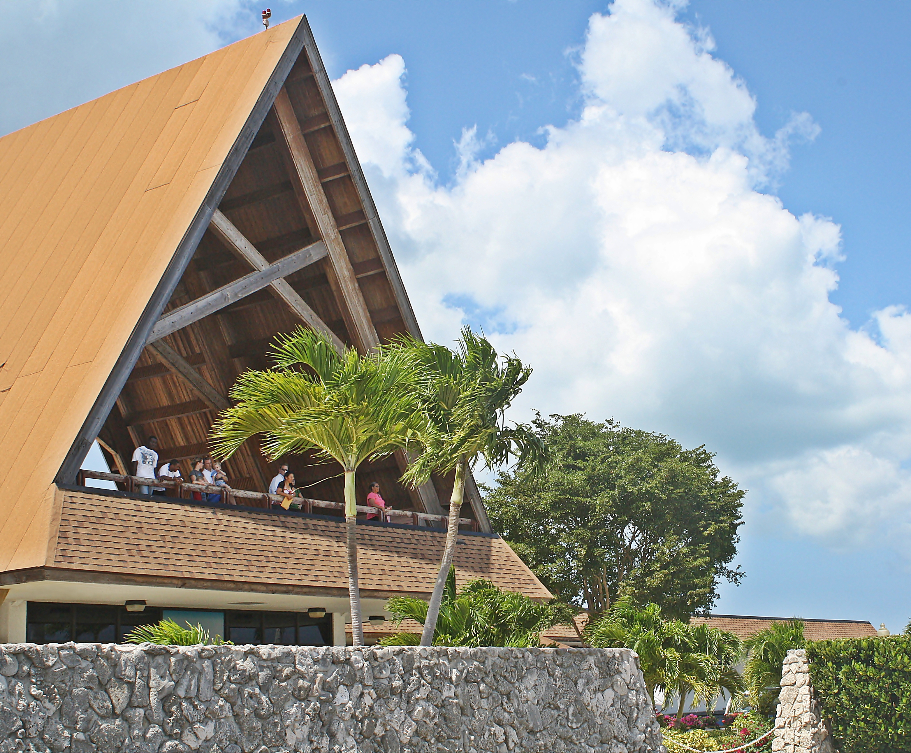 ~ Elliott Erwitt ~ (b. July 26, 1928, Paris, France) is an advertising and documentary photographer known for his black and white candid shots of ironic and absurd situations within everyday settings-the master of the "decisive moment." This is the Observation Deck at the Owen Roberts International Airport in George Town, Grand Caymans. The first photo I took right after landing and stepped off of the plane, two minutes earlier. What you don't see is a sign in front of this that read "No cameras allowed in this area...." OOPS... lol